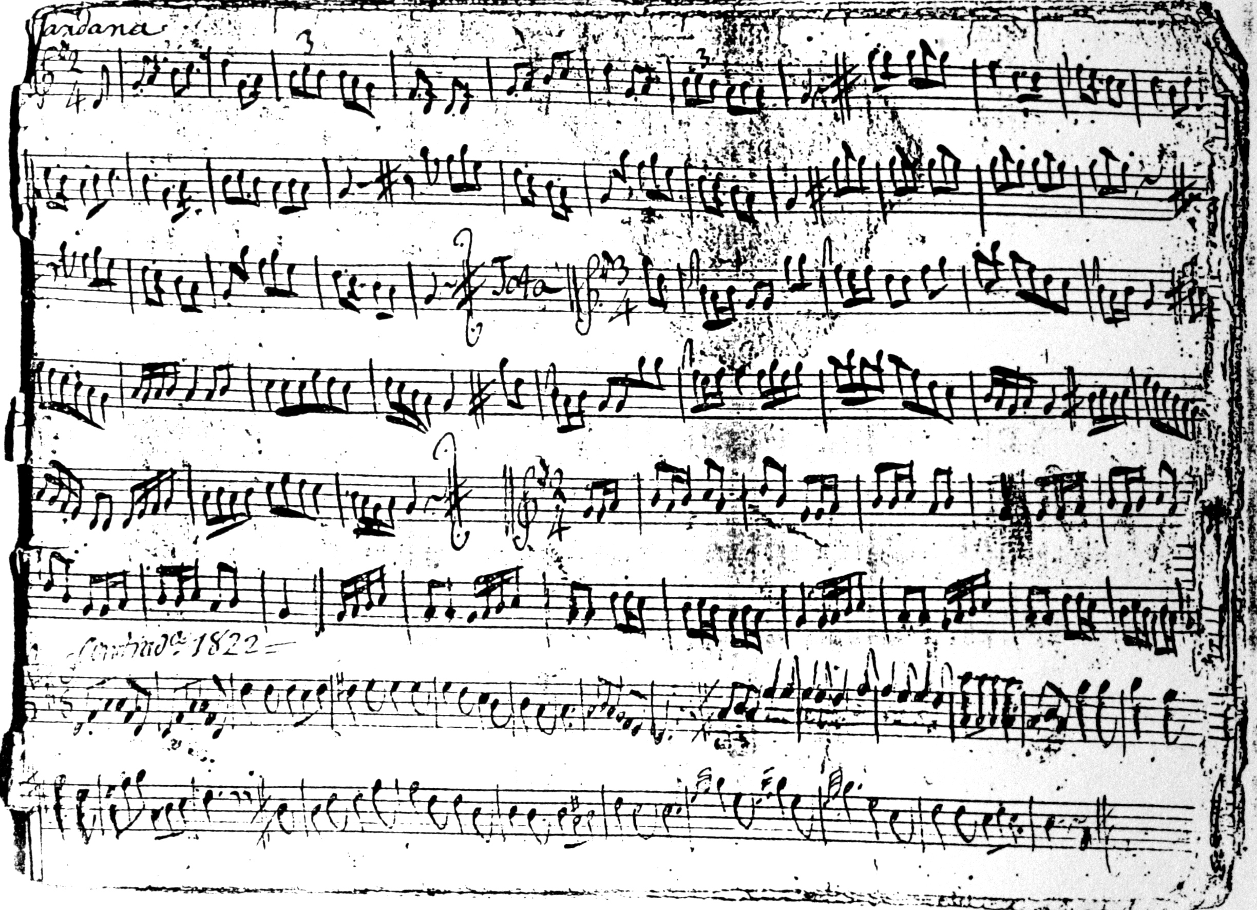 Sardana, Jota i contradansa en un manuscrit català (qudern de llibertats d'orgue) de ca. 1820